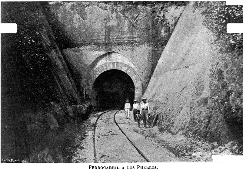 Railway tunnel in Nicaragua, built under President Zelaya (1893-1909)